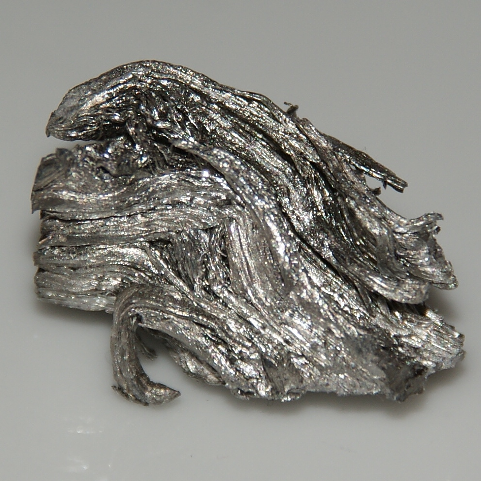 Ultrapure holmium, 17 grams. Original size in cm: 1.5 x 2.5